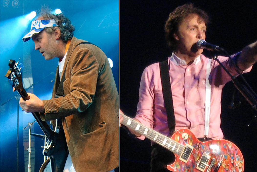 Paul McCartney in Prague, Czech Republic, 2004. Youth of Killing Joke, 1994.